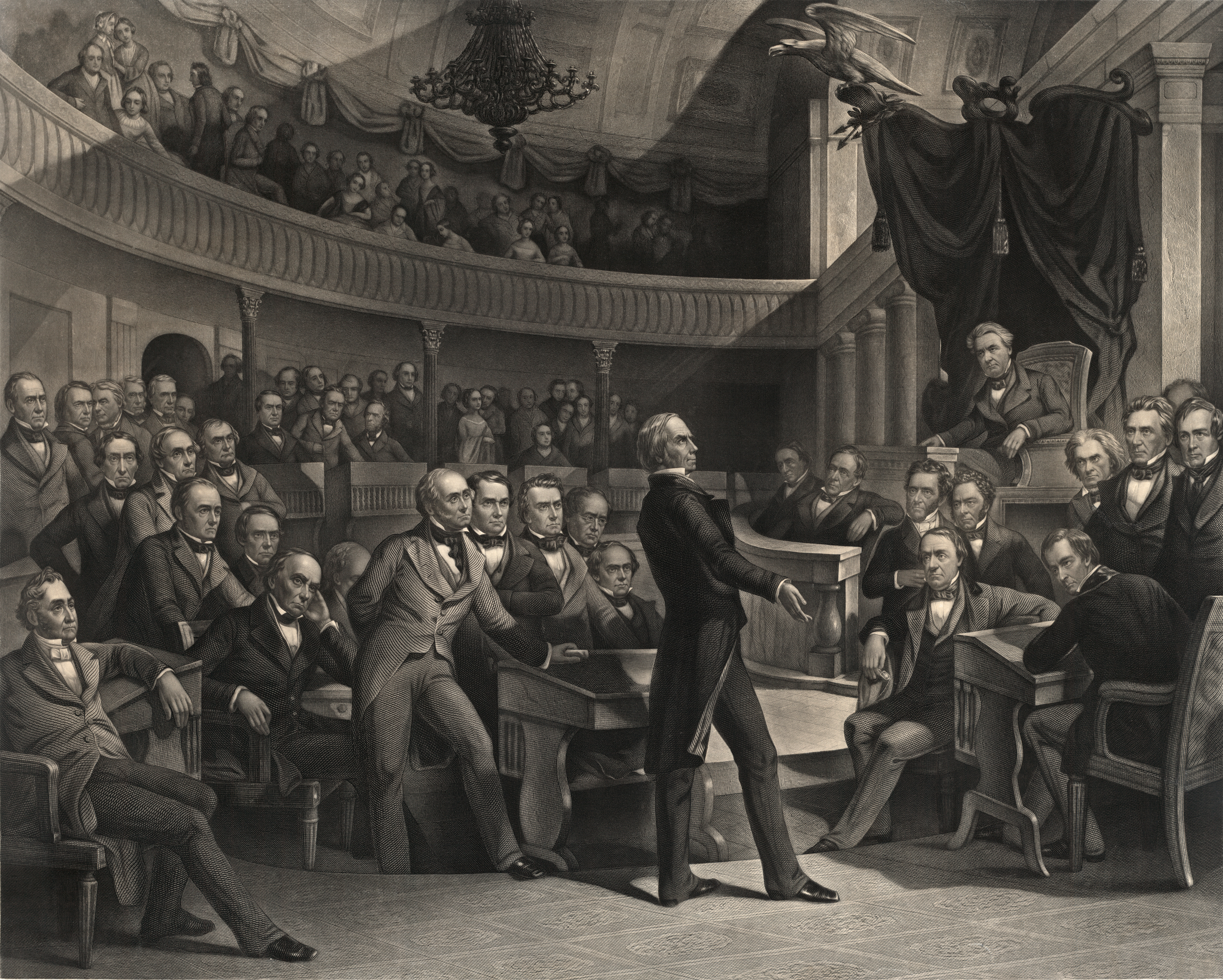 This engraving depicts the Golden Age of the United States Senate in the Old Senate Chamber, site of many of the institution's most memorable events. Here, Henry Clay, "the Great Compromiser," introduces the Compromise of 1850 in his last significant act as a senator. In a desperate attempt to prevent war from erupting, the "Great Triumvirate," of Daniel Webster of Massachusetts, John C. Calhoun of South Carolina, and Clay of Kentucky struggled to balance the interests of the North, South, and West. This image shows all three men, with Clay at center stage, presenting his compromise to the Senate. Daniel Webster is seated to the left of Clay and John C. Calhoun to the left of the Speaker's chair.